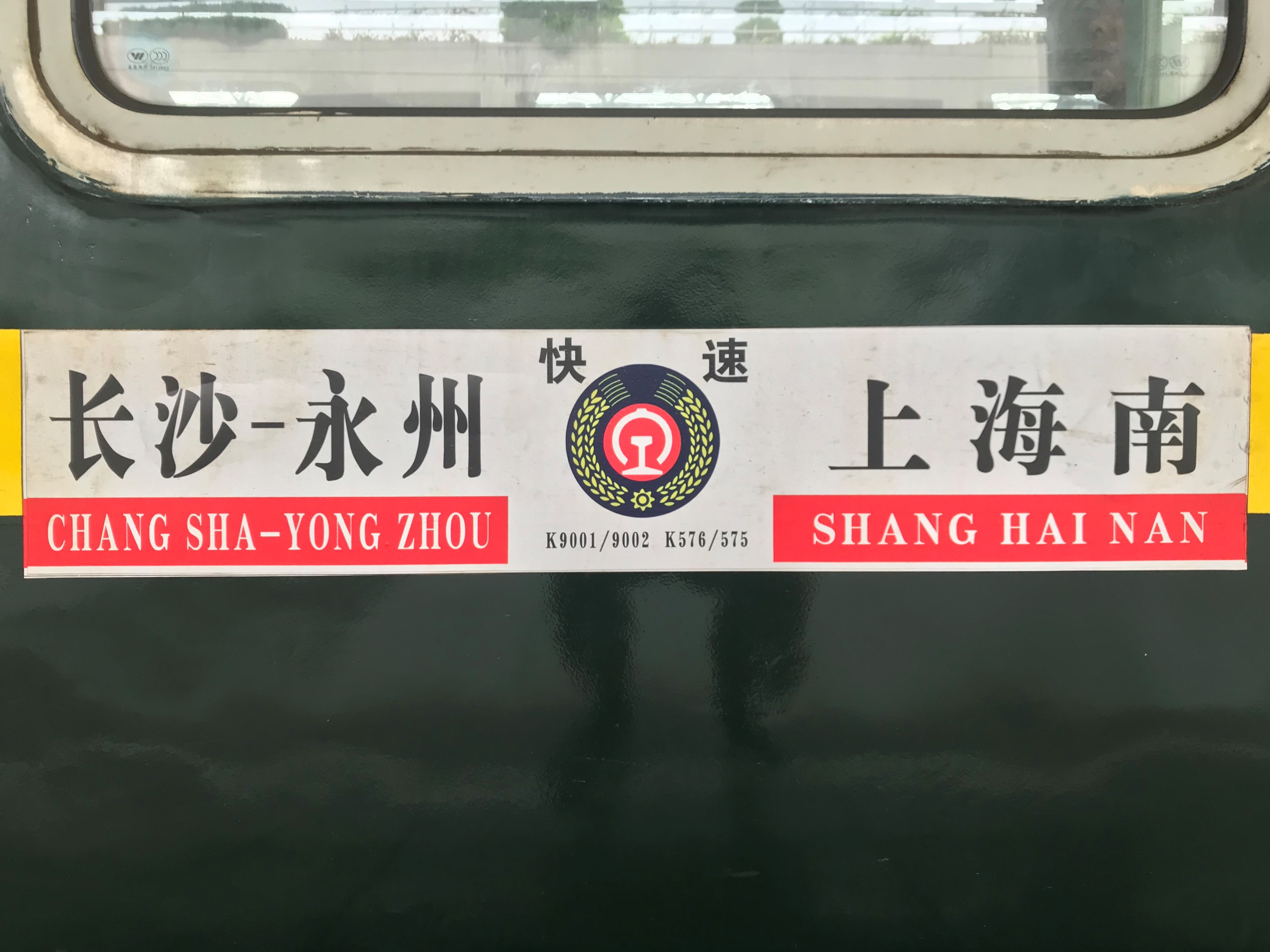 K575-576-9001-9002 Shanghai-Yongzhou-Changsha Train